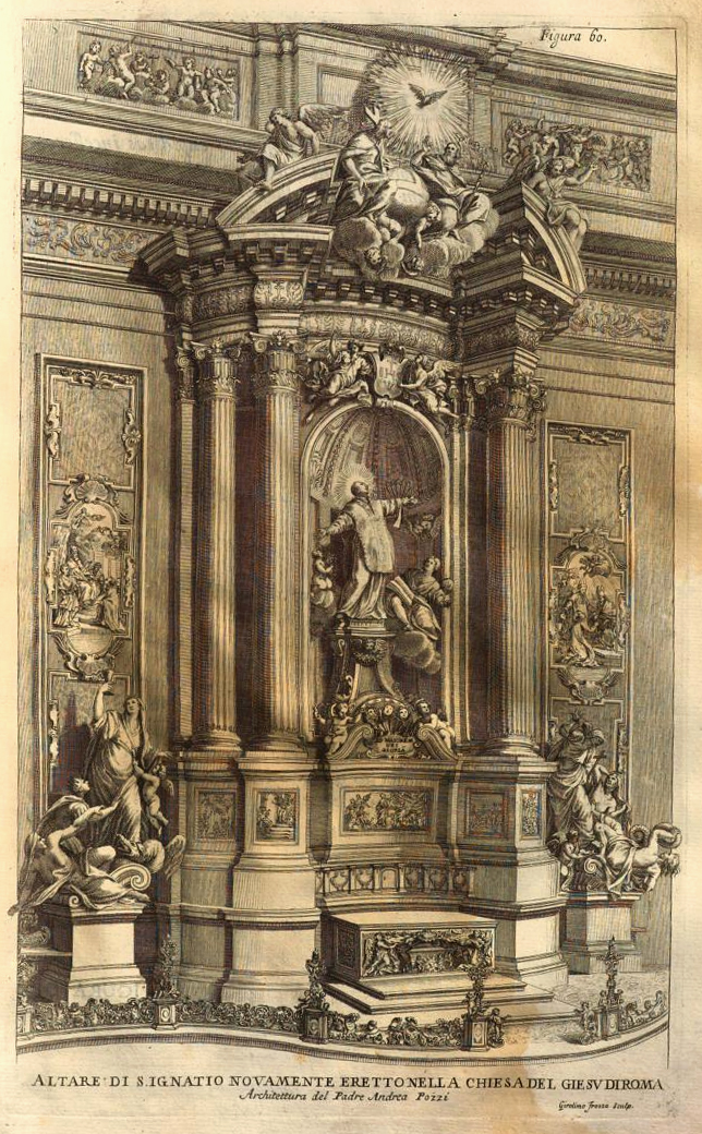 Altar of St. Ignatius in the Gesù (Rome)